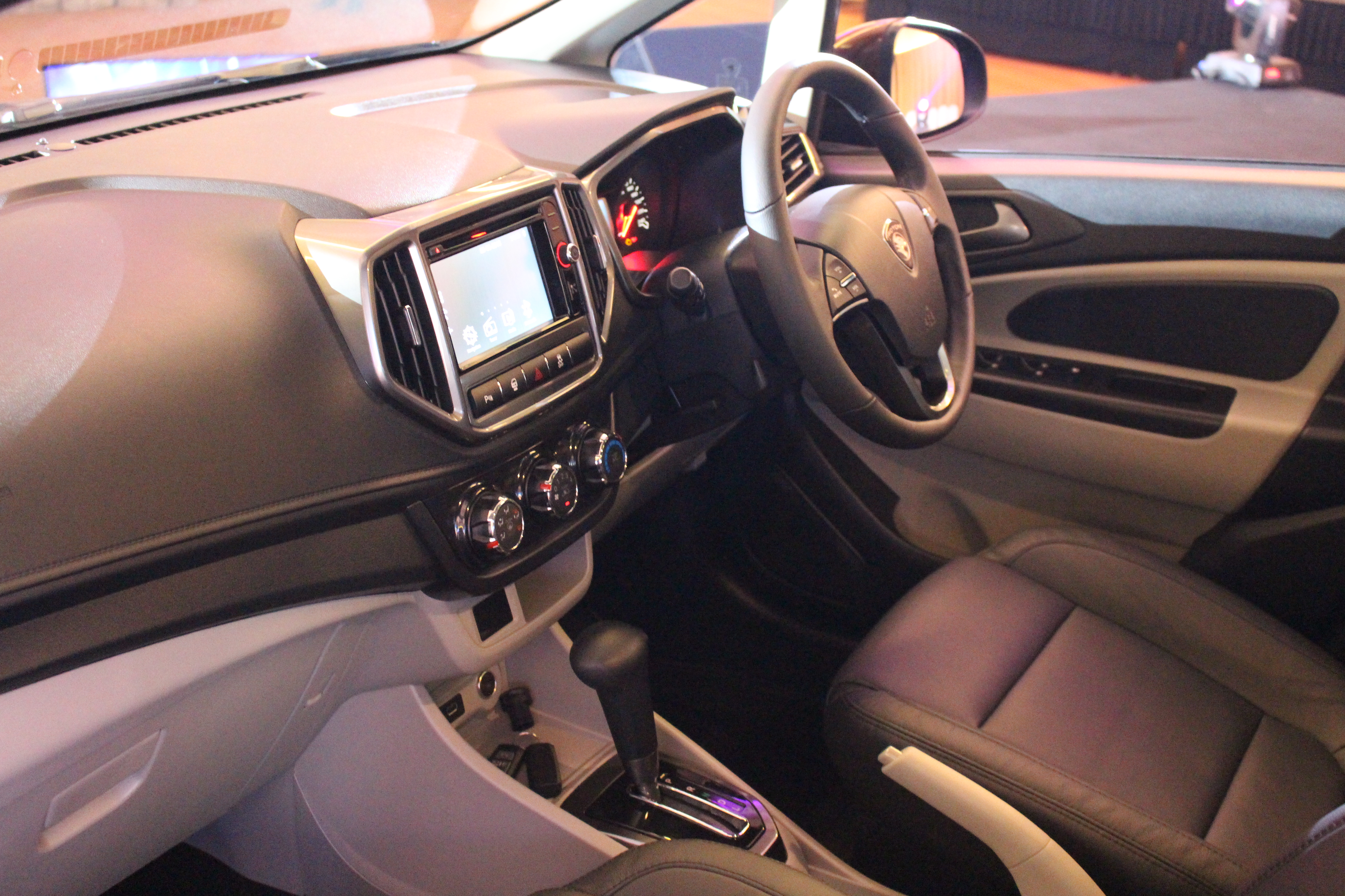 The interior of the BH Persona is mostly unchanged from the Iriz's, but it's now presented in a two-tone colour scheme, not unlike the outgoing CM Persona.